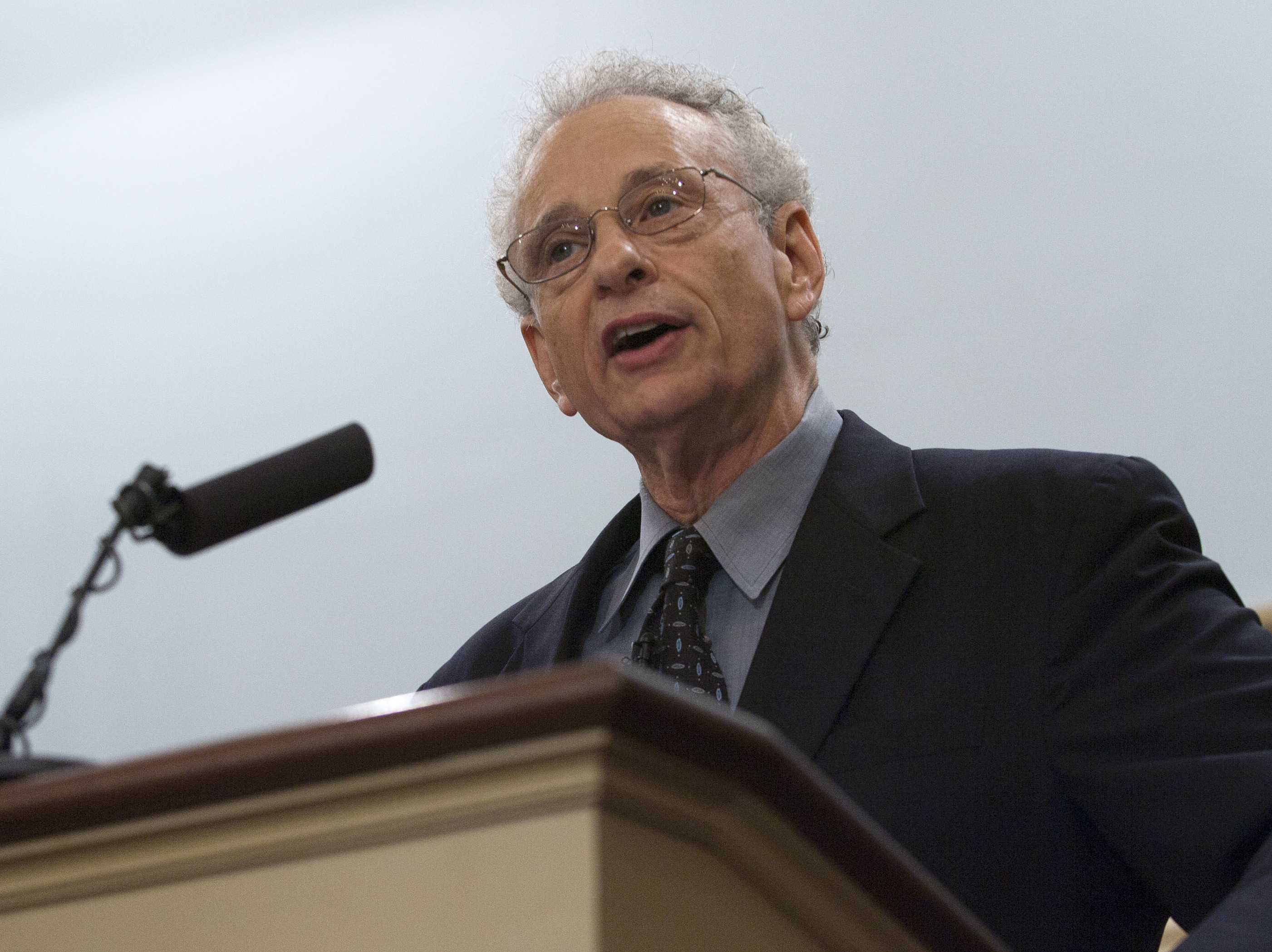 Professor Melvyn Leffler on the September 11th attacks and the reactions of U.S. policymakers. Held September 9, 2011. Miller Center, Charlottesville, VA. For more information, visit .